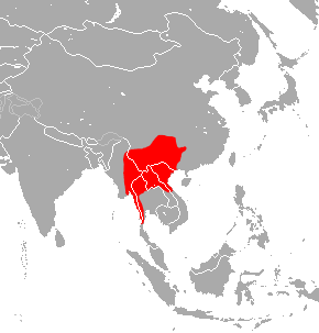 Stoliczka's Trident Bat (Aselliscus stoliczkanus) range